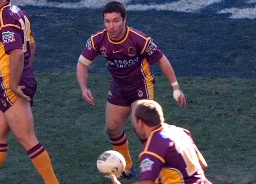 Brisbane Broncos players